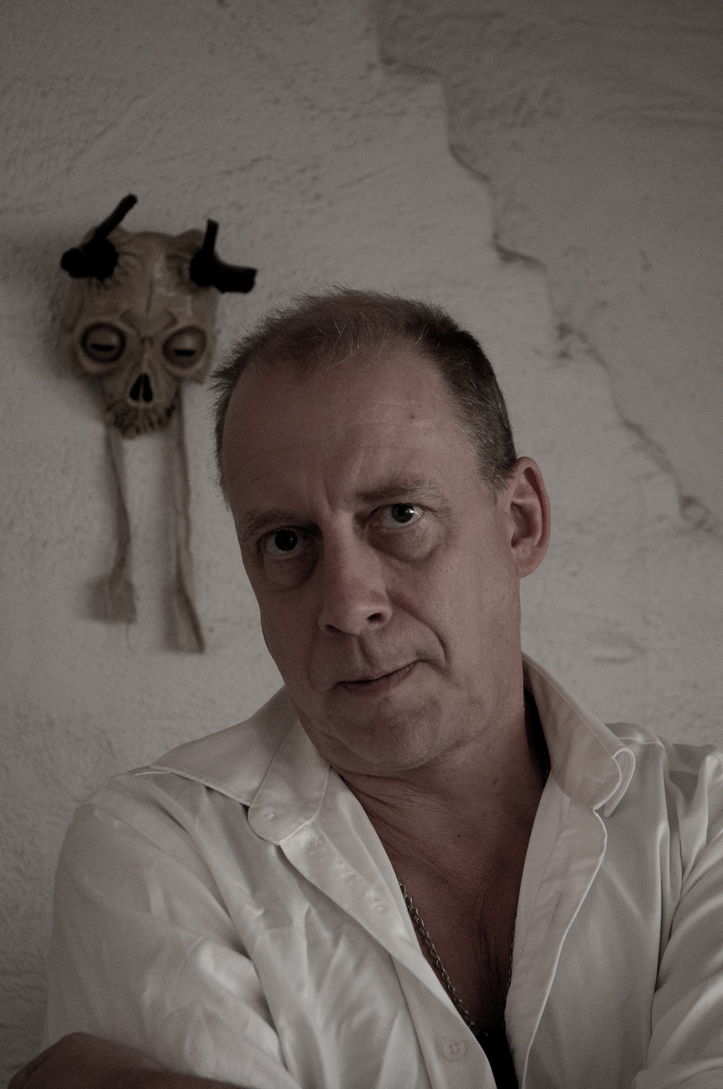 Anders Fager by Anders Fager owned by Anders Fager given to Wikipedia by his own free will.